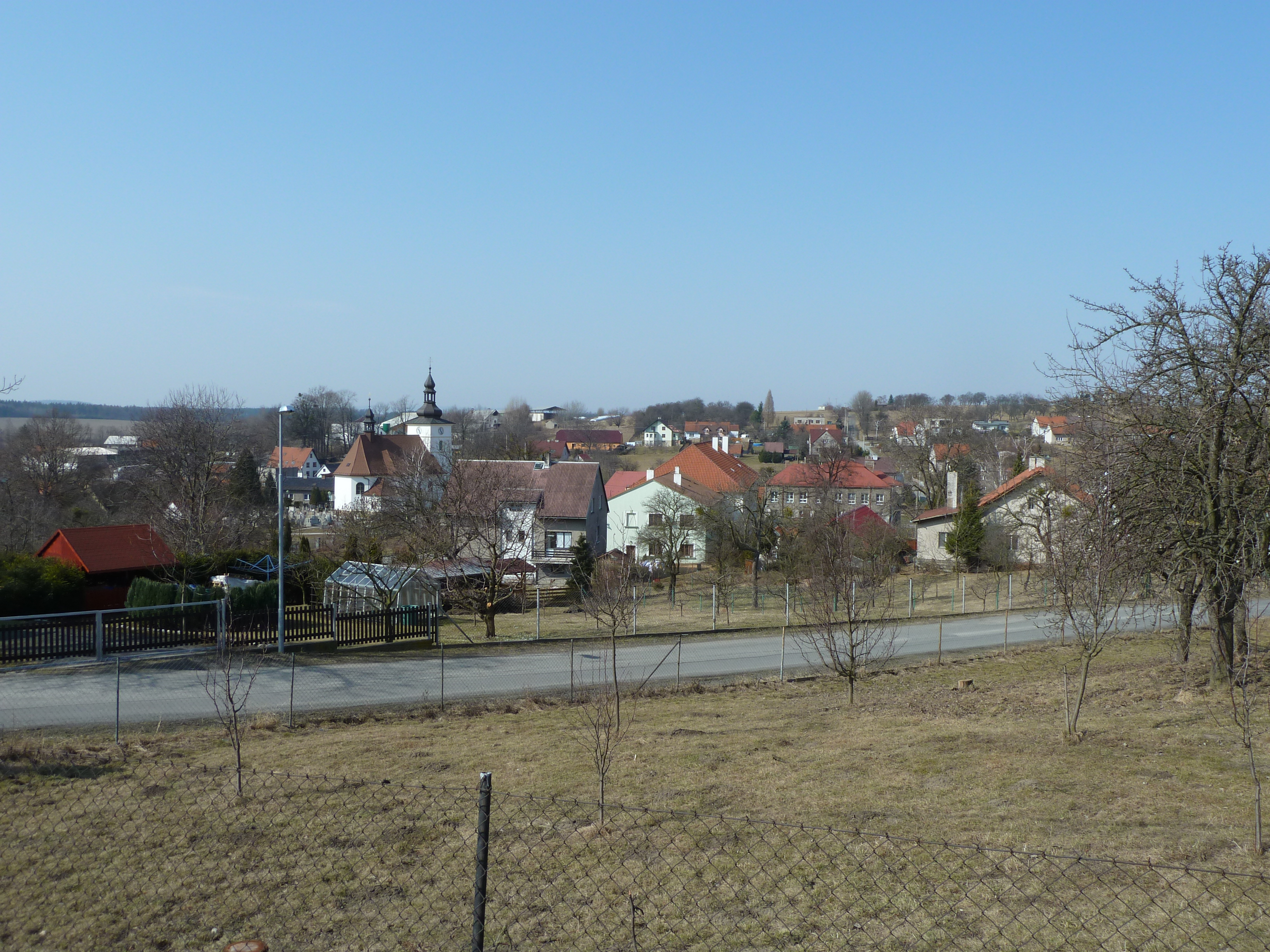 village Libhošť (Nový Jičín district, north-eastern Moravia, Czech Republic)